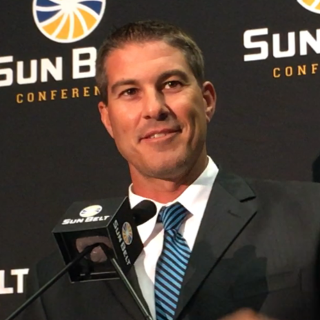 Jamey Chadwell, interim head coach and offensive coordinator of the Coastal Carolina Chanticleers football team, at the 2017 Sun Belt Conference media days in New Orleans.